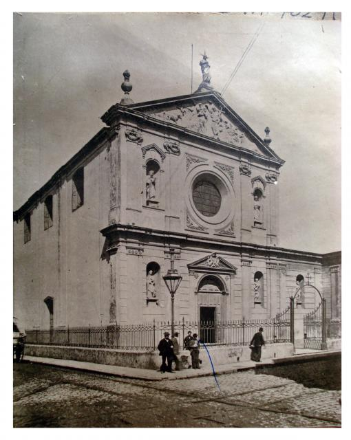 Facade of the San Juan Bautista Church in Buenos Aires. The church, built on the corner of Piedras and Adolfo Alsina street, was remodeled in 1895 and 1931.